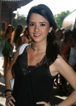 Miss El Salvador 2007 - Silvia Michelle Melhado in Miss World 07, Sanya, China